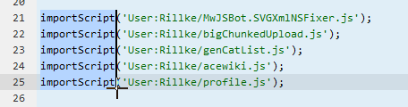 Example showing vertical editing feature (multi-line) by CodeEditor: First hold Alt, then select the area you would like to edit, then edit multiple lines at once.